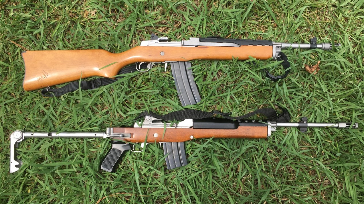 Two Strum-Ruger Mini-14 Rifles. Top, a 583-Series Mini-14 Tactical. Bottom, a 184-series Mini-14 GB-F.